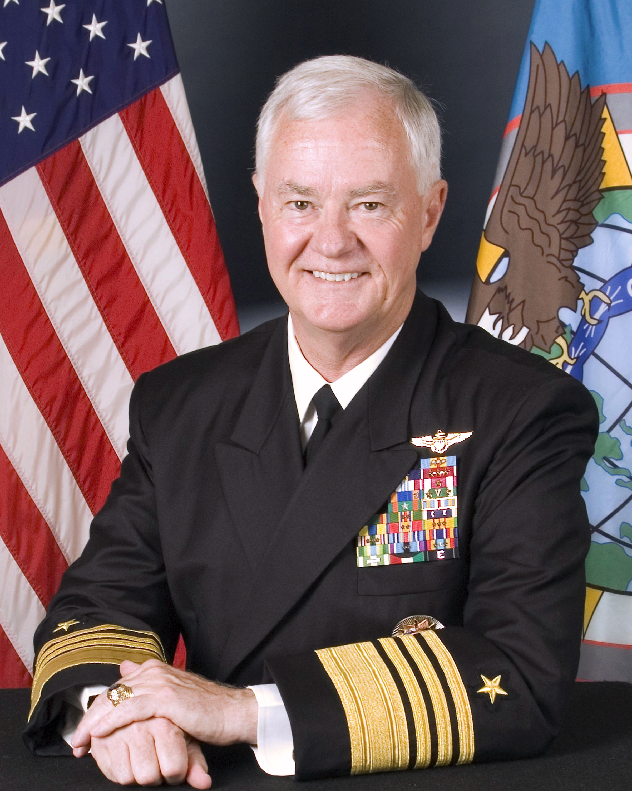 Official photo of Keating as Commander, USPACOM